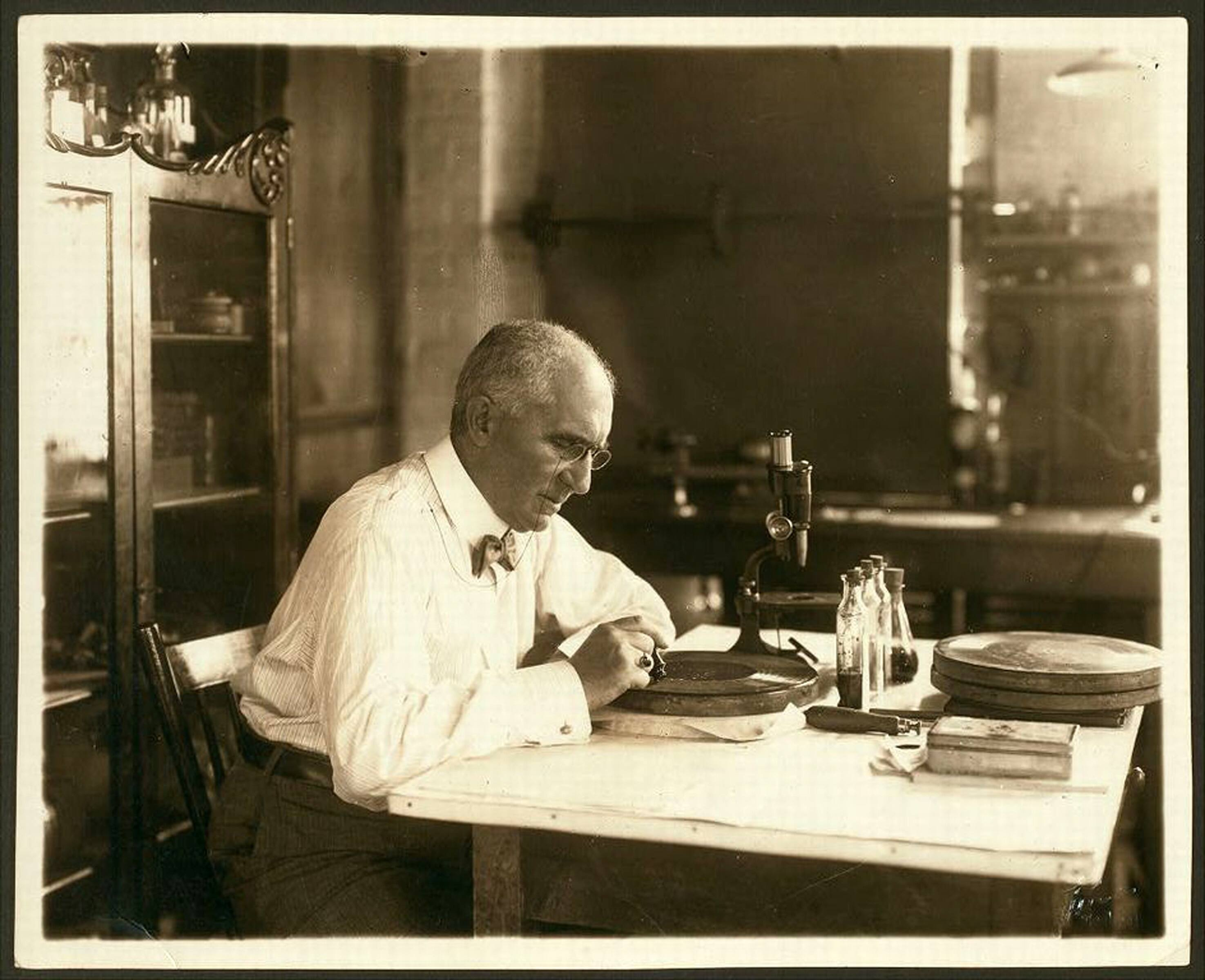 Emile Berliner in laboratory working on gramophone disc.